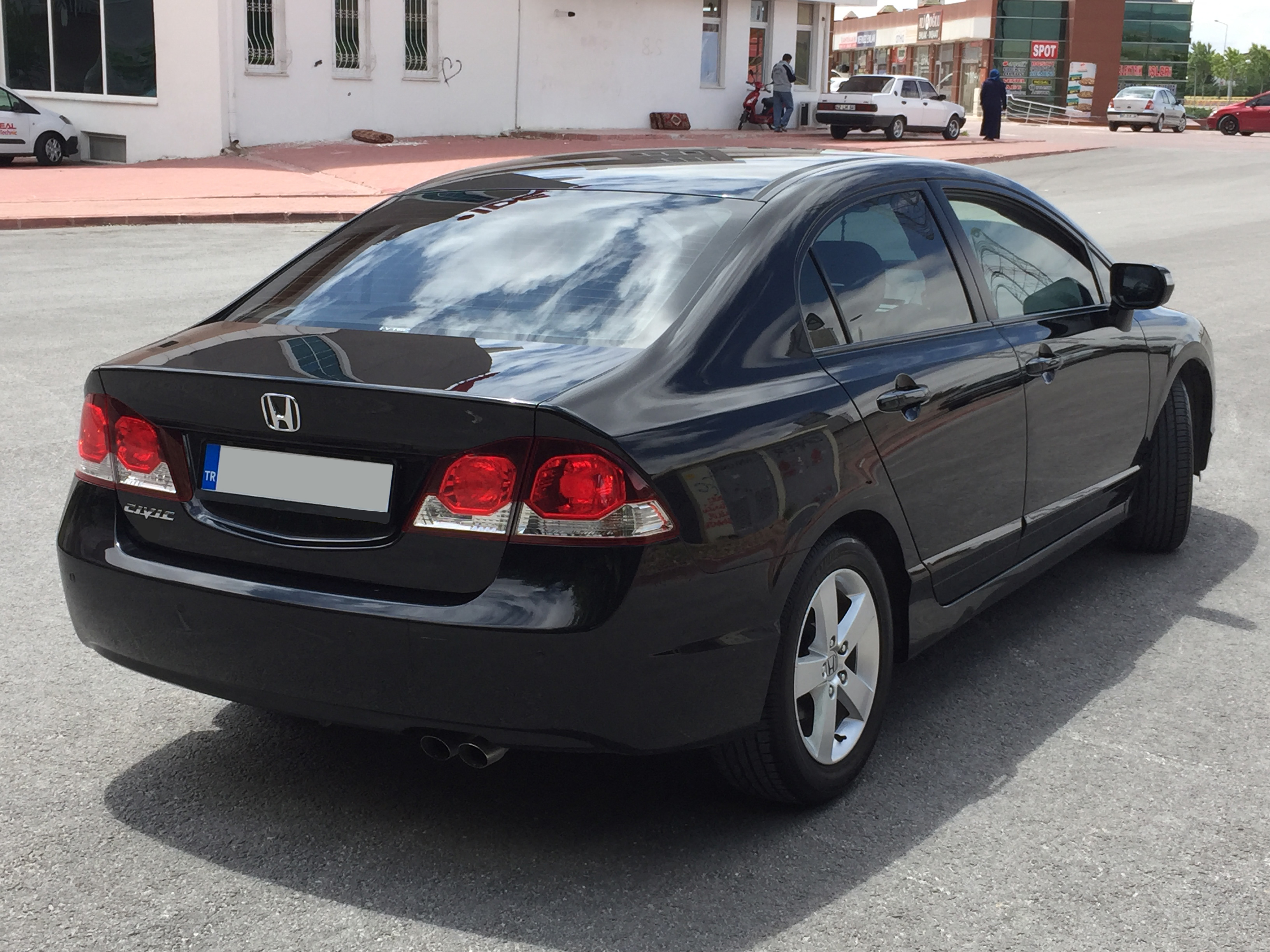 2010 Honda Civic